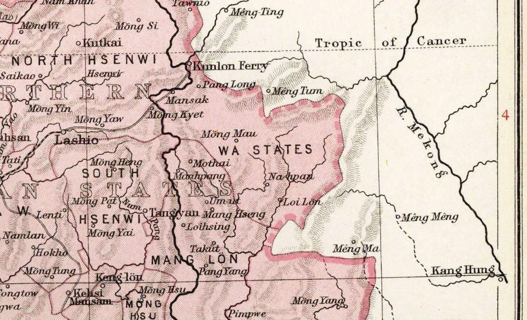 1909 Imperial Gazetteer of India Burma map section